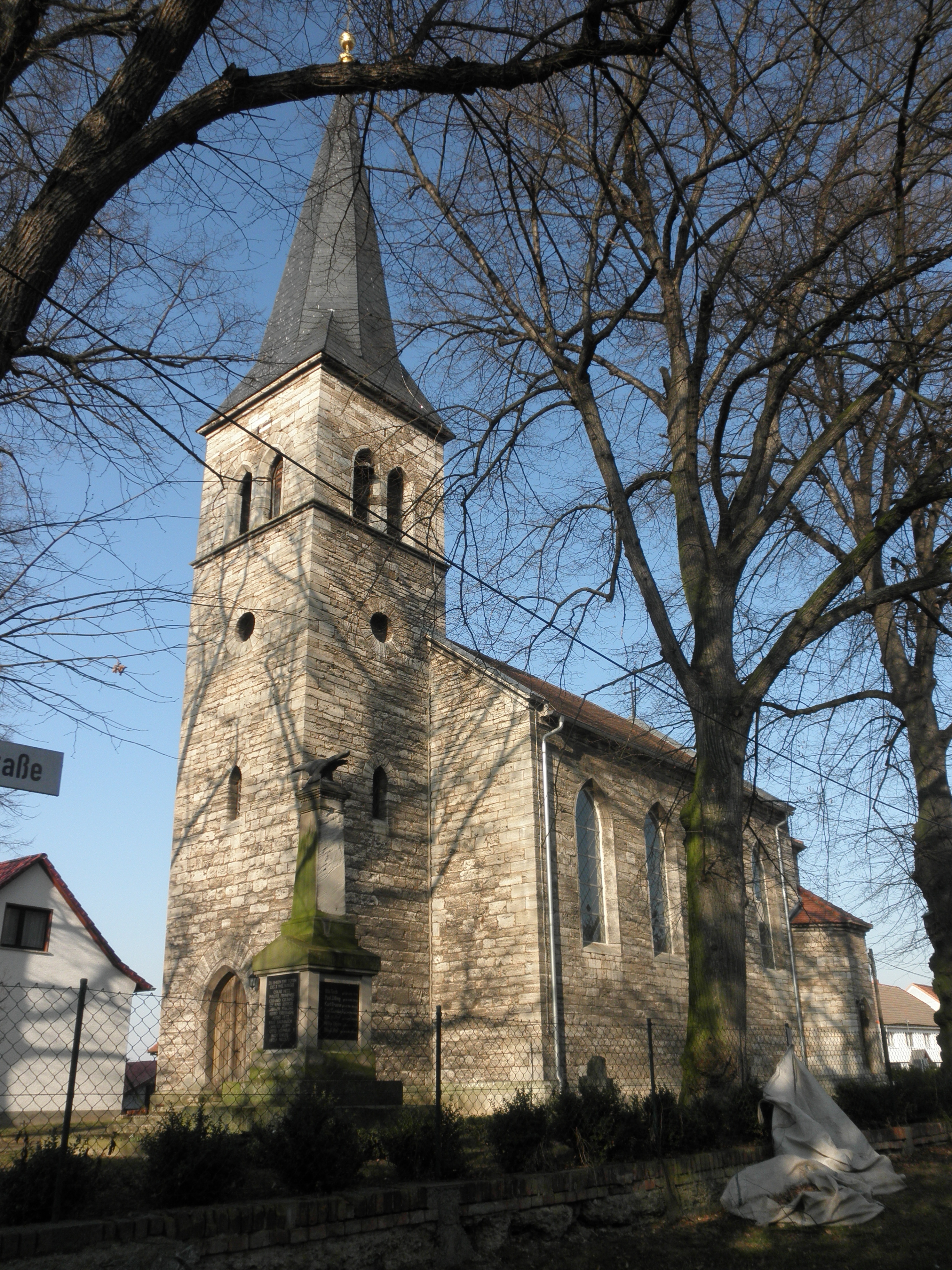 Church in Henschleben in Thuringia